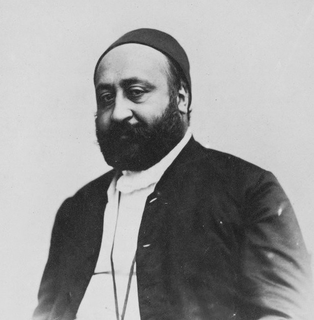 Ottoman statesman, diplomat, playwright and translator Ahmed Vefik Paşa (Portraits d'Ahmed Wefik Pacha (XIXe s.))